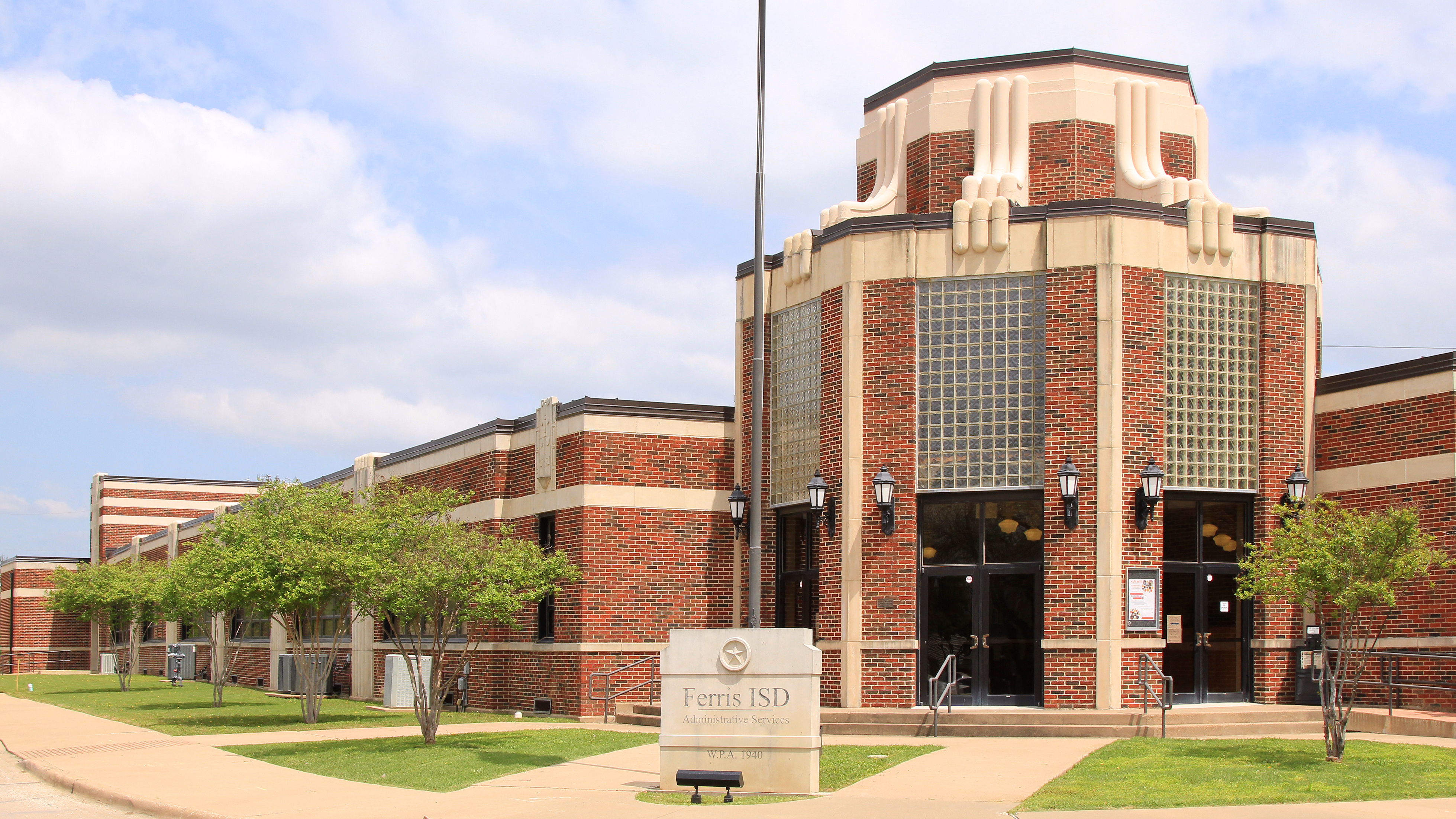 The old Ferris School in Ferris, Texas, United States is now the Ferris Independent School District's Administrative Services Building. The Works Progress Administration built the building in 1940.